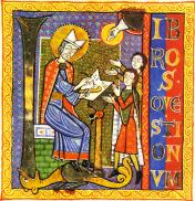 Gilbert of Poitiers